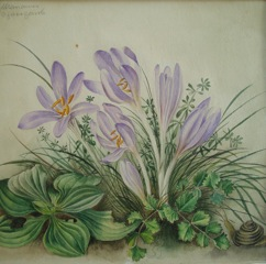 Flowers, Marianne Schneegans